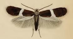 Stainton’s Natural History of the Tineina (1855–1873): Ectoedemia occultella